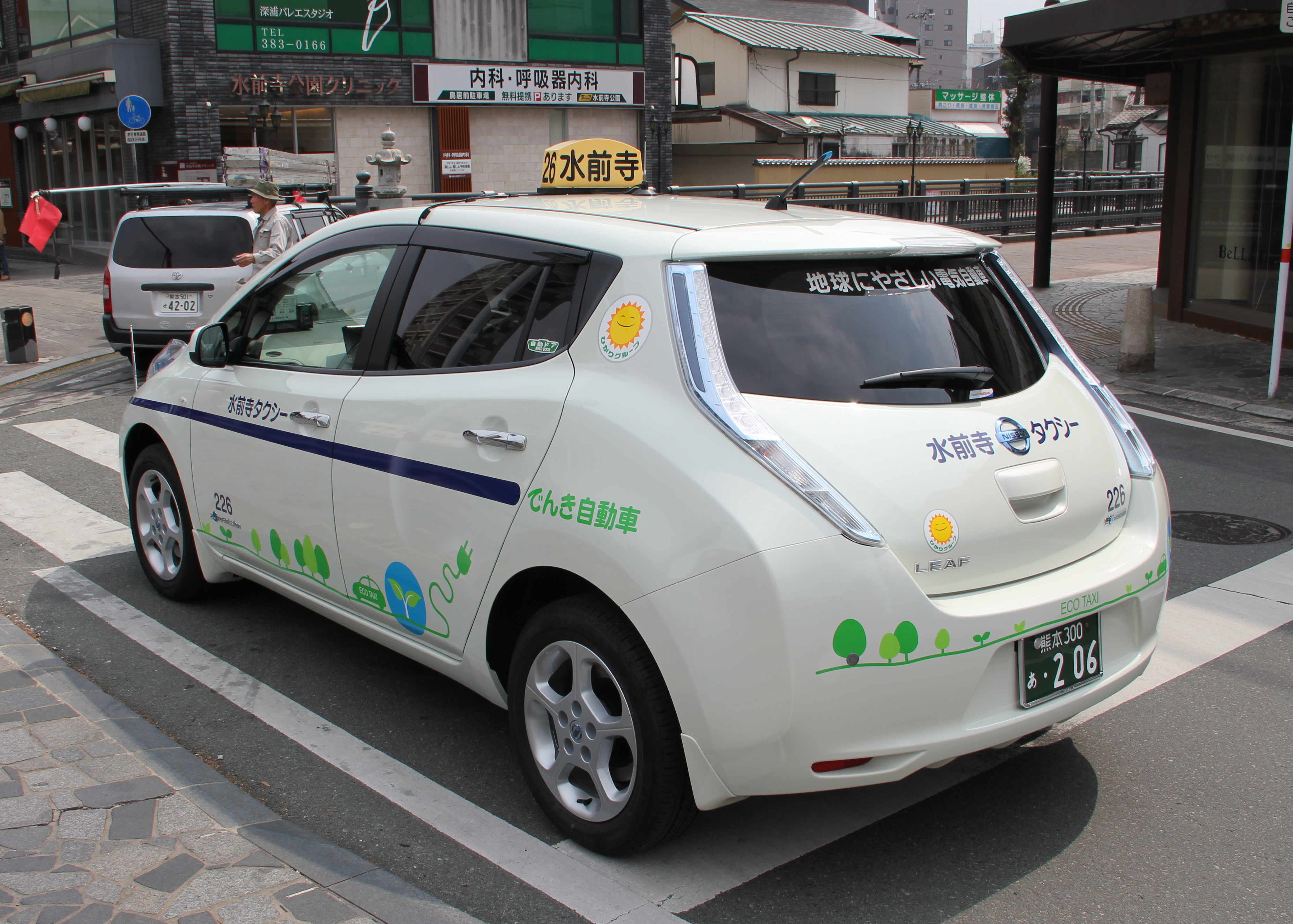 The Nissan Leaf is operating as part of the taxi fleet of Kumamoto Prefecture, Kumamoto City. Introduced in February, six Leafs have been introduced until March 2011.